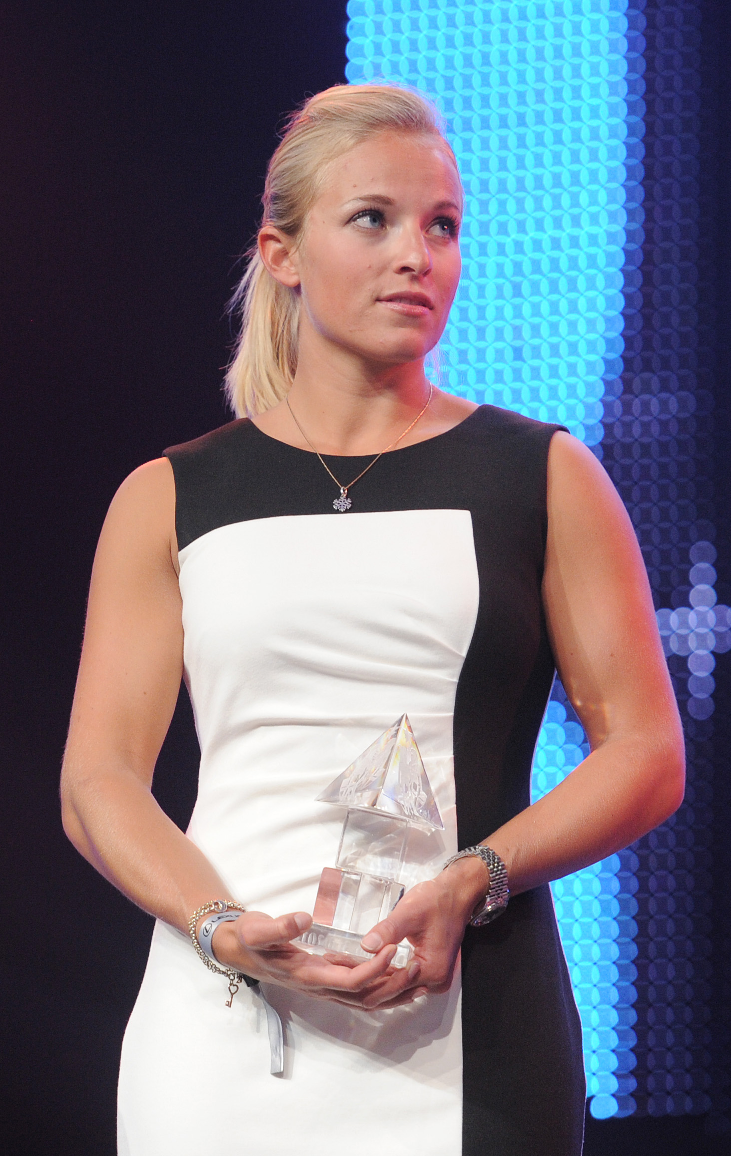 Davos, 03.10.2014. Sport, 12. Internationale Sportnacht Davos 2014. Die Skifahrerin Lara Gut.. Copyright by: foto-net / Kurt Schorrer